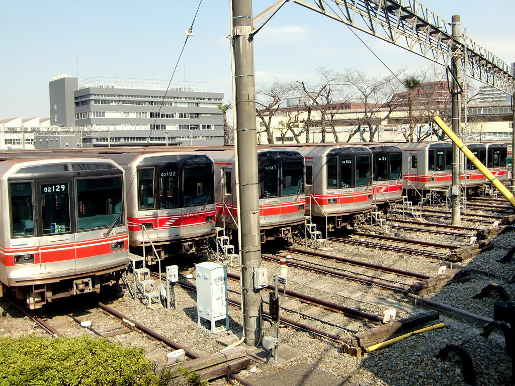 Tokyo Metro's Nakano Depot in Tokyo, Japan